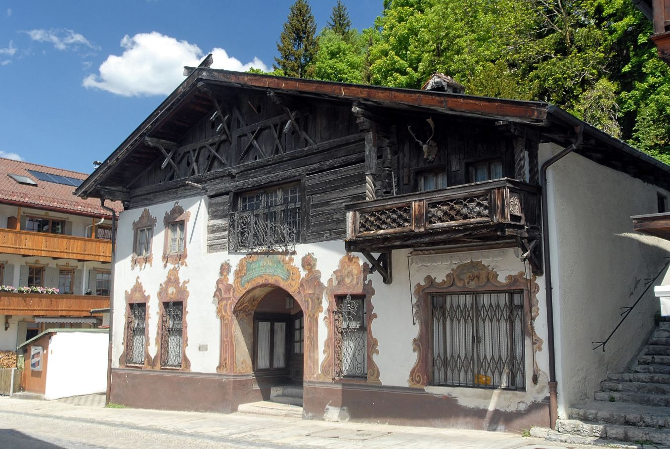 Garmisch-Partenkirchen, street "Ludwigstrasse", House in traditional Style: "Alte Haus"